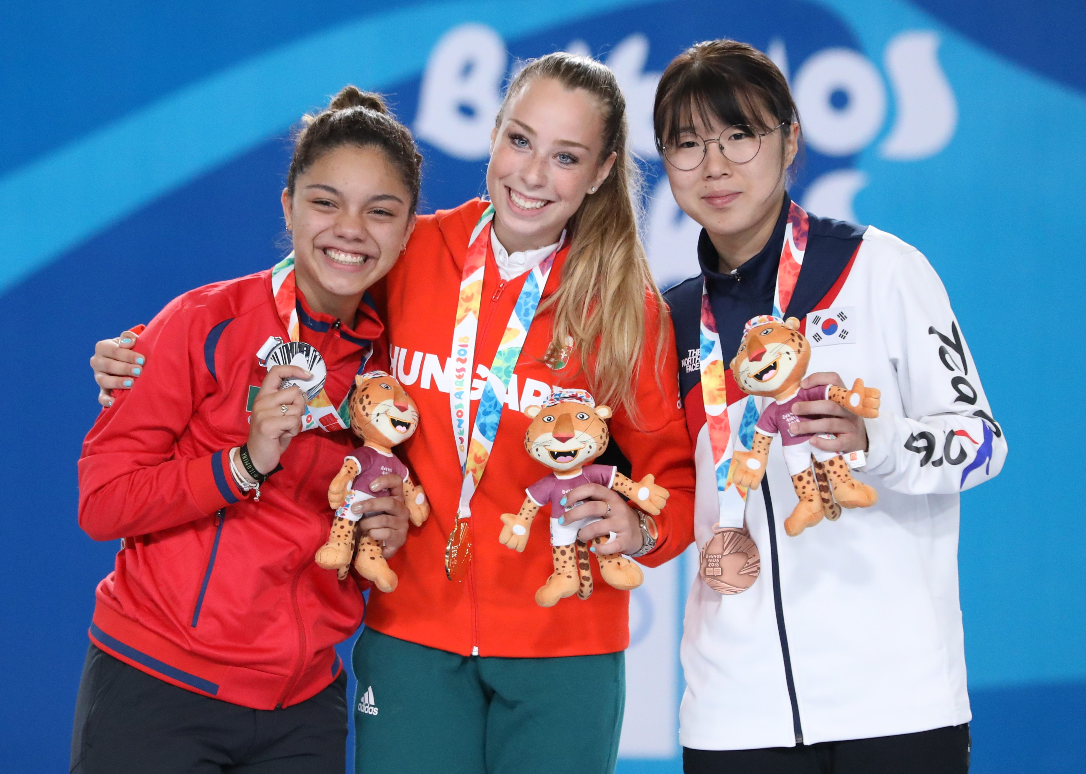 Girls' sabre, Victory ceremony: Liza Pusztai (Gold medal), Natalia Botello (Silver medal), Lee Ju-eun (Bronze medal))